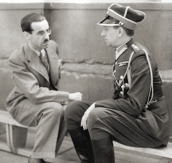 Adam Papée (1895 -1990) (from the left) and Władysław Segda (1895-1994) - Polish fencing champions